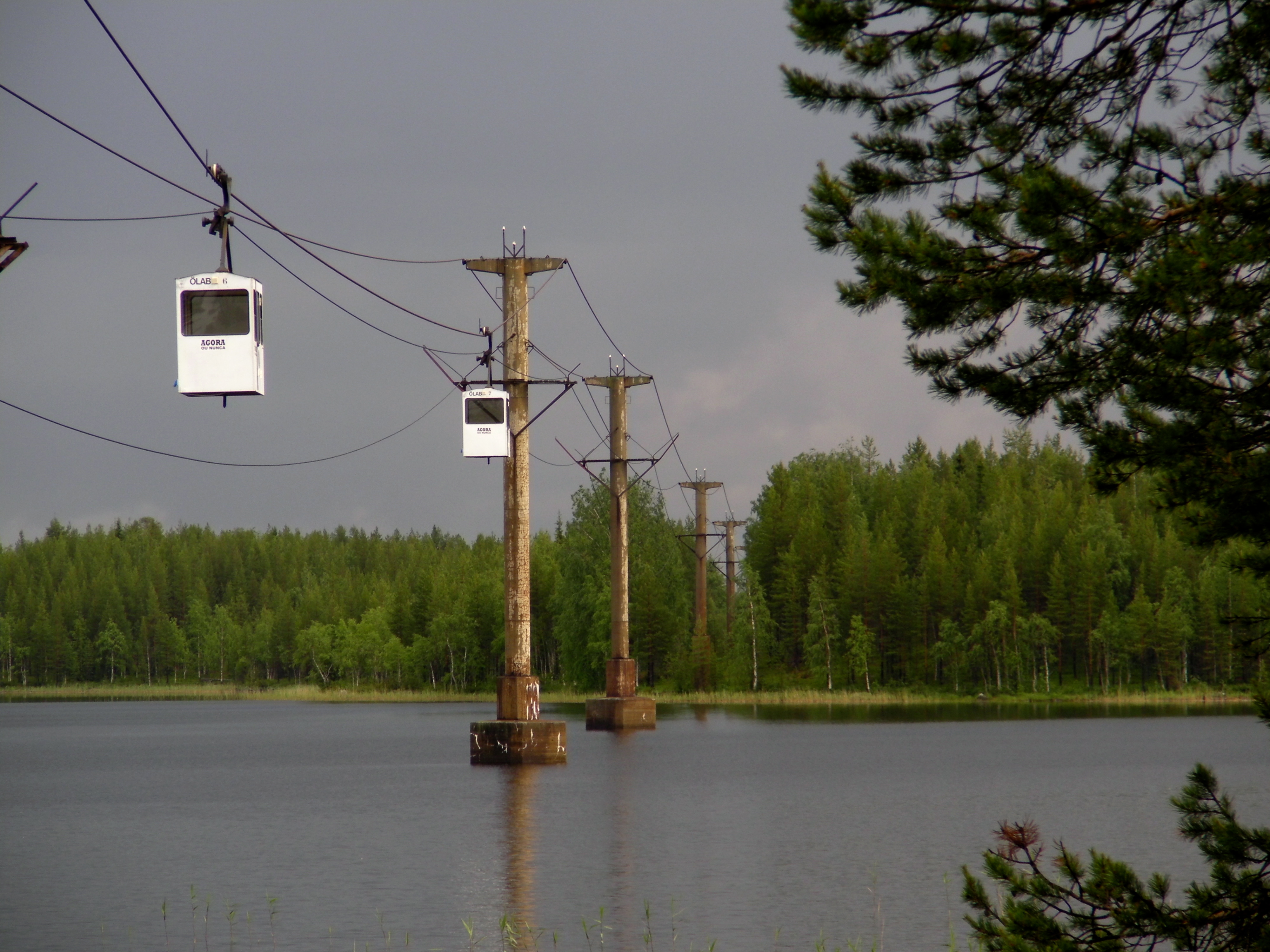 View of the passenger-carrying section of the former Kristineberg-Boliden cableway. Close to terminal station in lake Mensträsk.